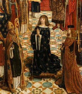 Coronation of Louis XII of France. (Paris, musée national du Moyan Âge-Thermes de Cluny, N°725)